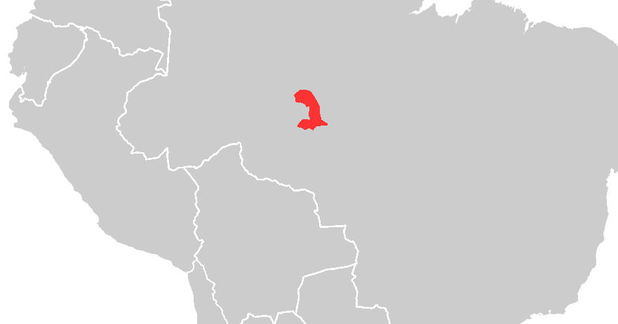 Source: Dixon & Aikhenvald (1999): "Other small families and isolates" in The Amazonian Languages, Dixon & Alexandra Y. Aikhenvald (eds.), Cambridge: Cambridge University Press, 1999. p. 268-70. Nicholas Ostler (2005): Empires of the World: A Language History of the World, p. 362